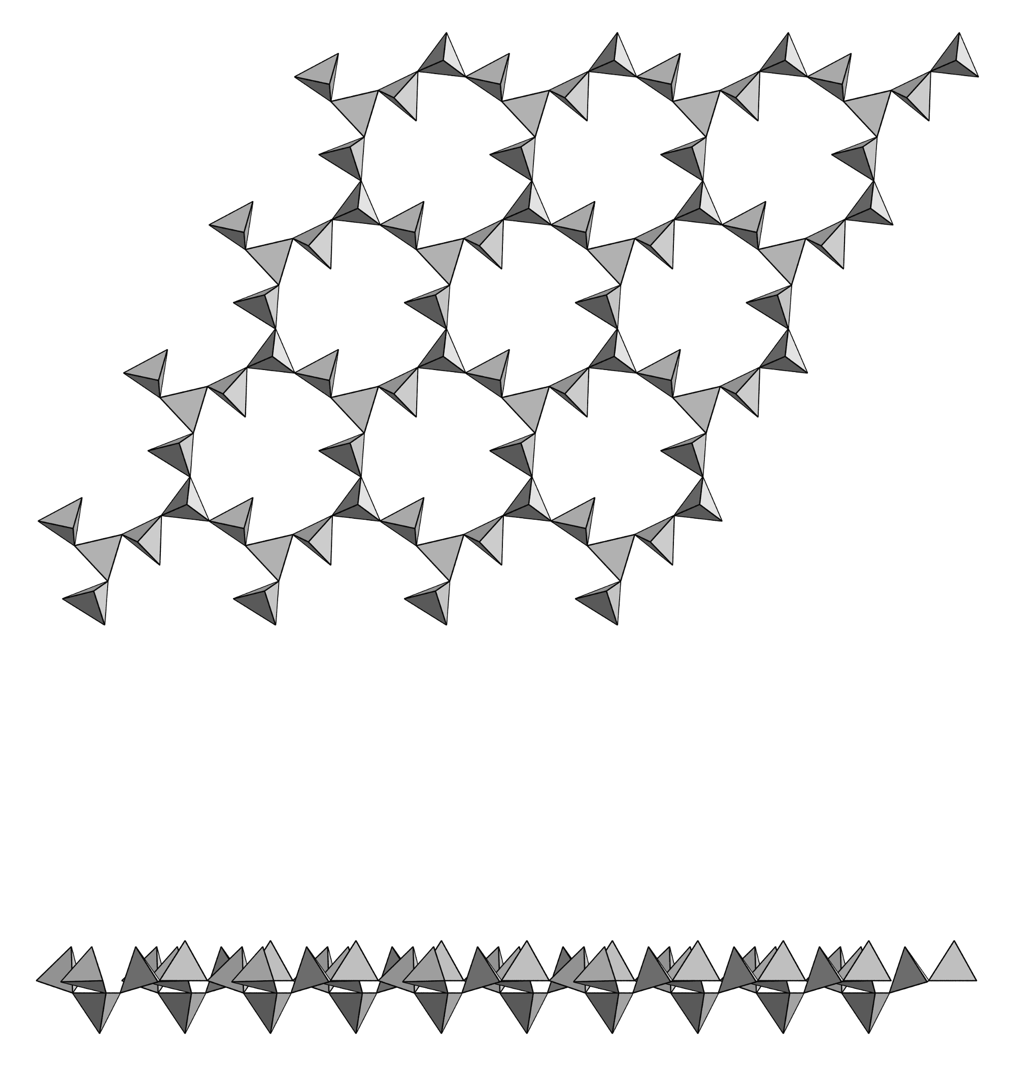 Zeophyllite silicate sheet Data from: Merlino S. (1972): The crystal structure of zeophyllite, Acta Crystallographica, Section B 28, pp. 2726-2732 Calculation of image data: Larry W. Finger, Martin Kroeker, and Brian H. Toby, DRAWxtl, an open-source computer program to produce crystal-structure drawings, J. Applied Crystallography V40, pp. 188-192, 2007 Rendering: POVRAY